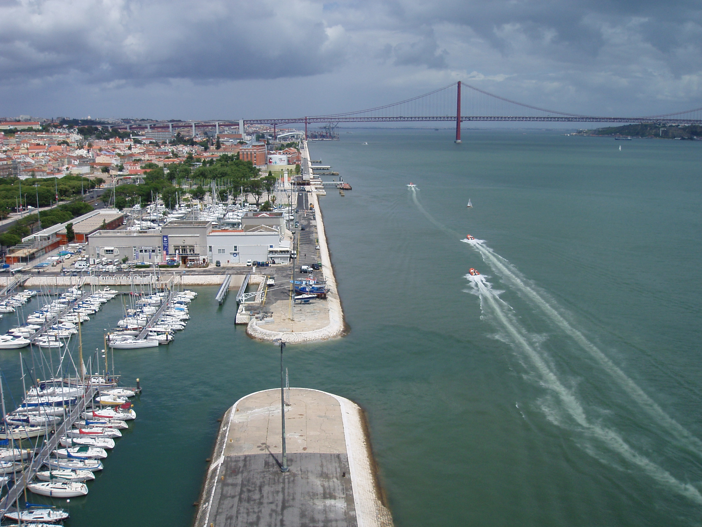 Marina in Lisbon, Portugal, seen from the top of the Monument to the Discoveries.